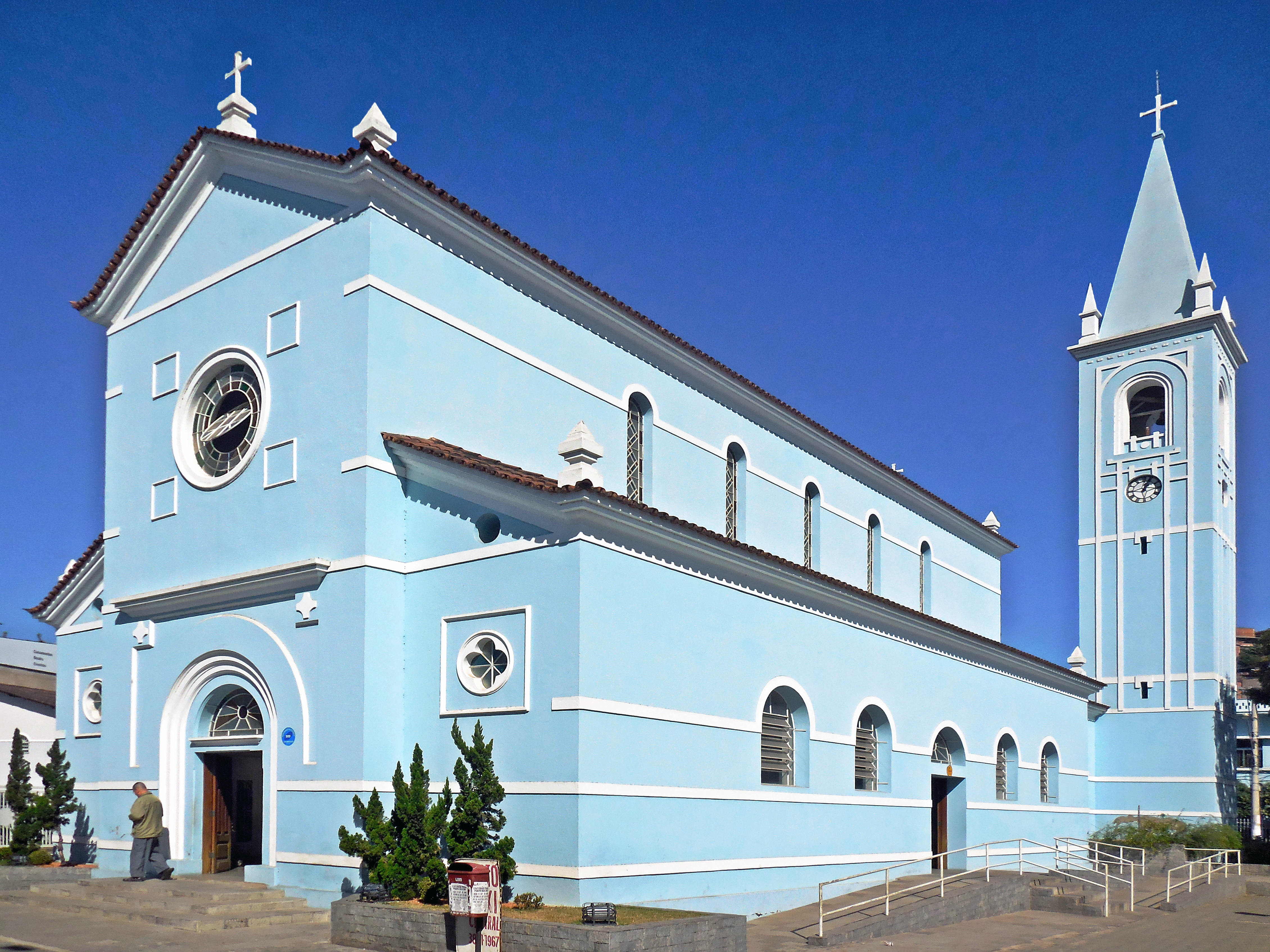 Lateral view and the tower of the Saint Sebastian Mother Church, in Coronel Fabriciano, Minas Gerais, Brazil.